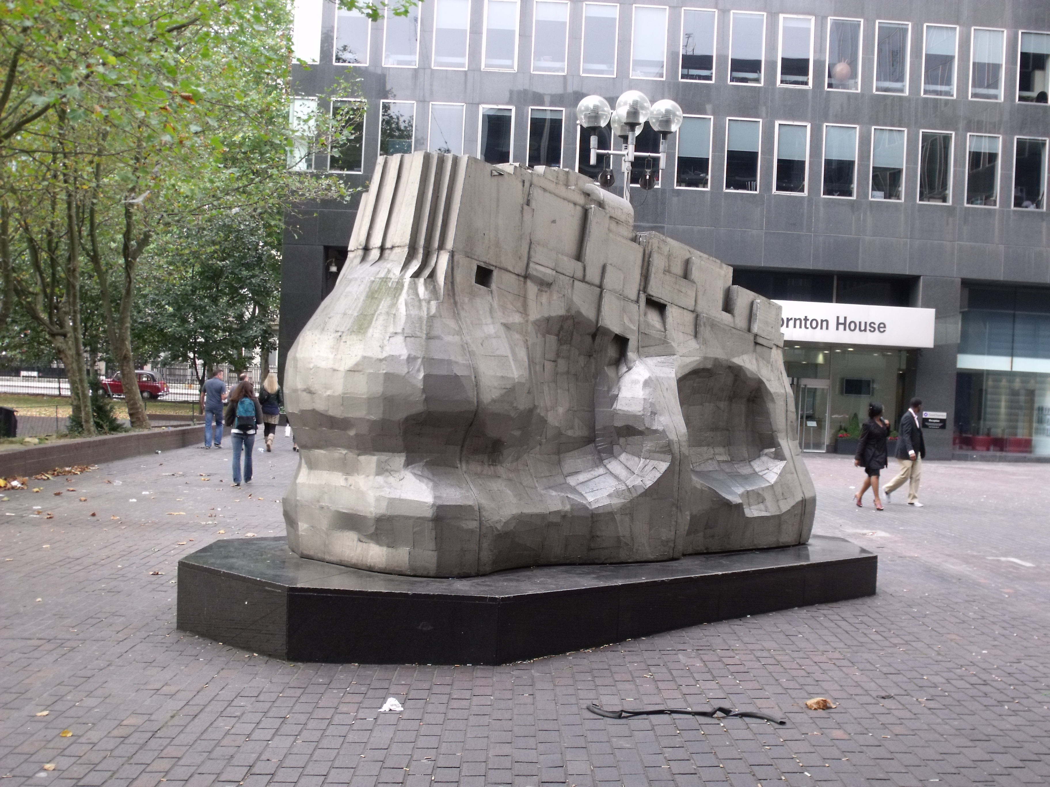 Sculpture Erwin Piscator by Eduardo Paolozzi outside Euston Station in London.